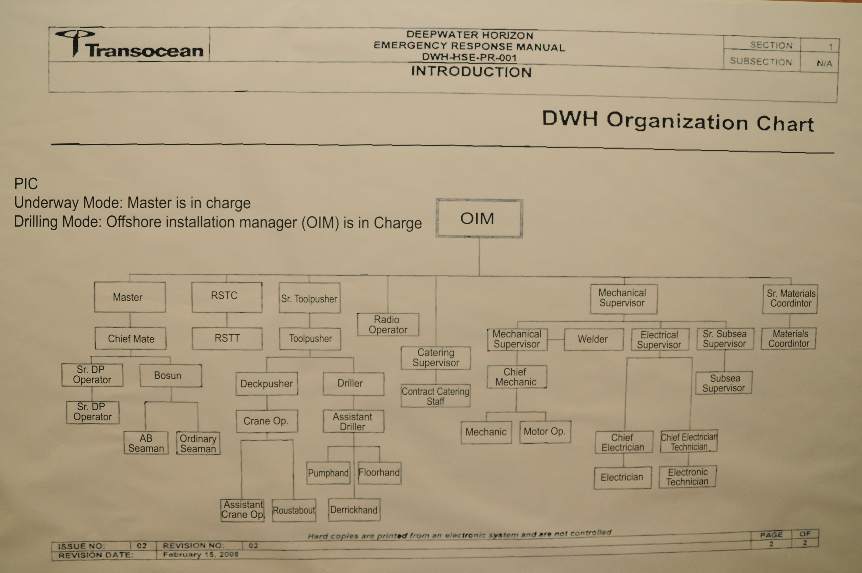 Deepwater Horizon Organizational Chart as presented during the Joint Investigation hearings, Wednesday, May 26, 2010. U. S. Coast Guard photo by Petty Officer 3rd Class Casey J. Ranel. Original source: Deepwater Horizon Emergency Response Manual. DWH-HSE-PR-001. Revision date: February 15, 2008.